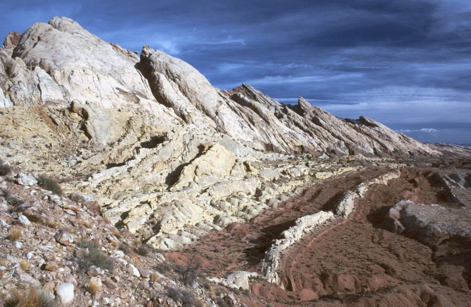 San Rafael Reef, Utah, looking north from near I-70. The prominent white ridge is Jurassic Navajo Sandstone that has been warped upwards.